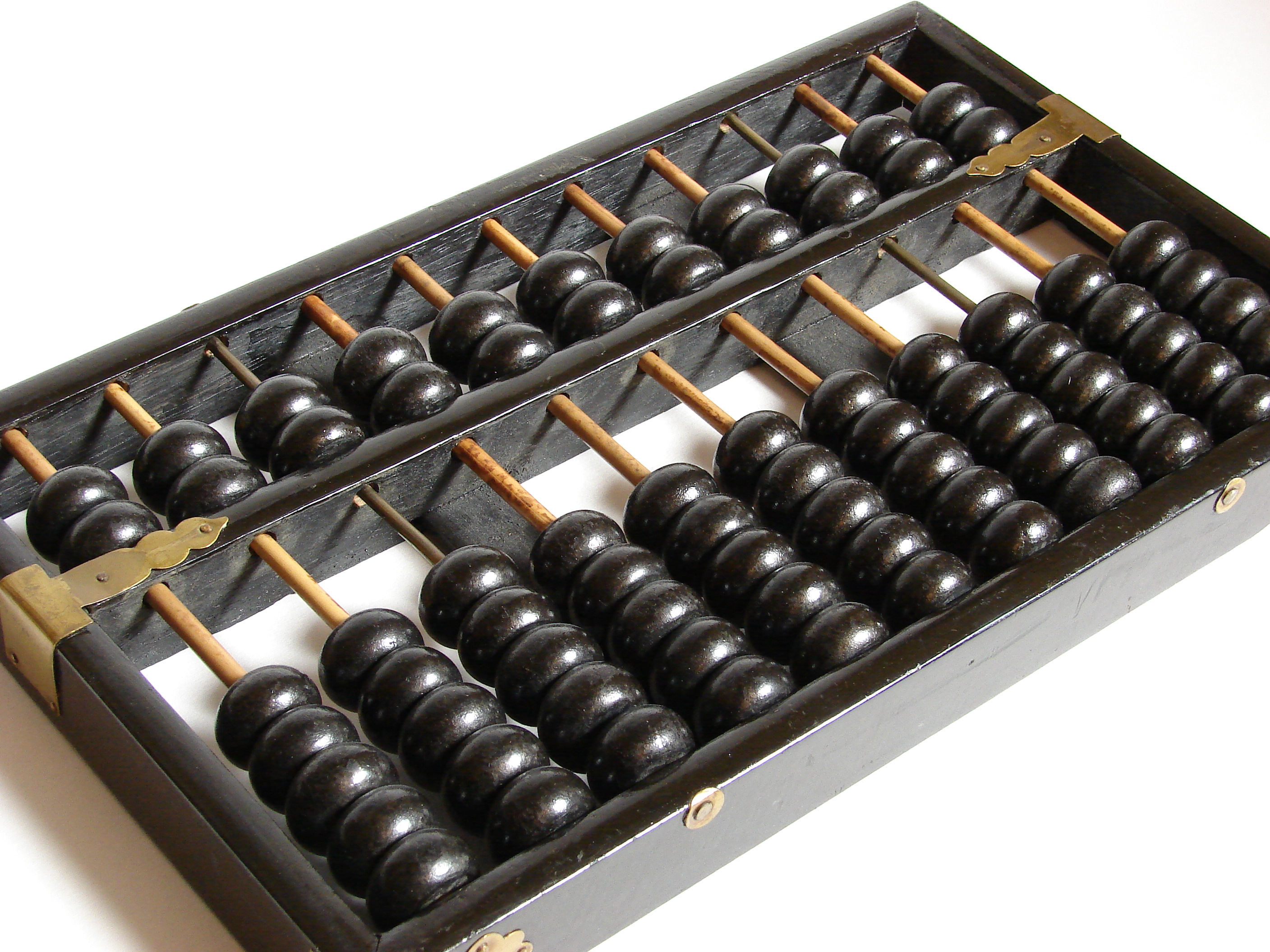 Chinese abacus.